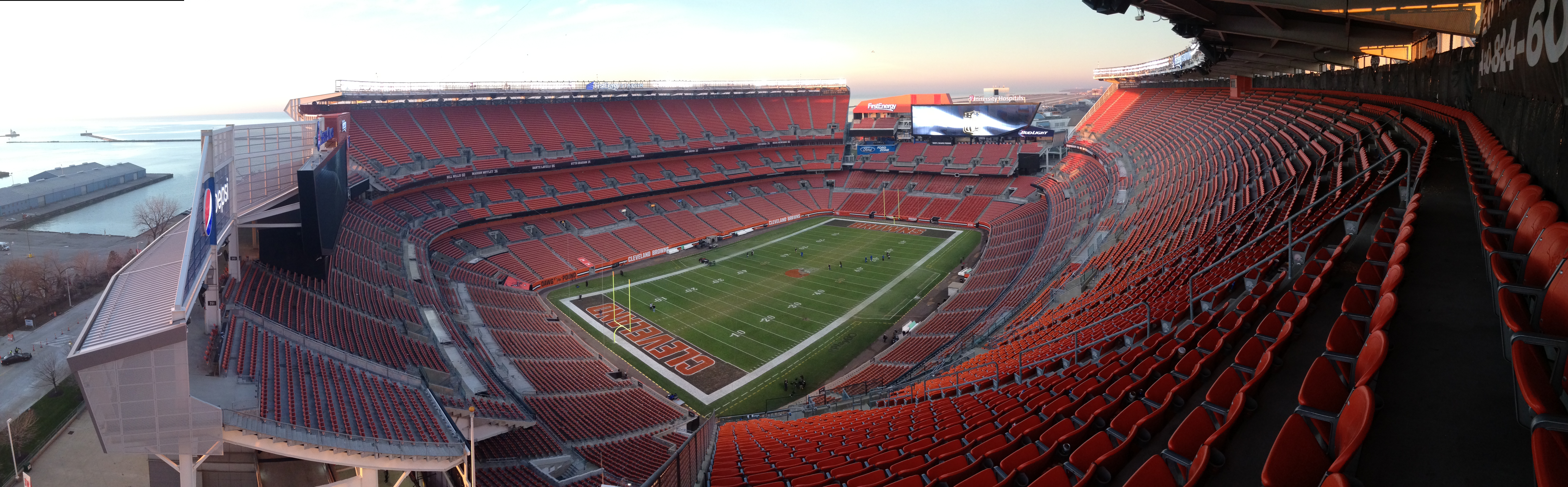 FirstEnergy Stadium in Cleveland, Ohio, United States, as seen from the top of Section 501 in December 2015. It serves as the home of the Cleveland Browns of the National Football League and opened in 1999. It was renovated in two phases in 2014 and 2015.